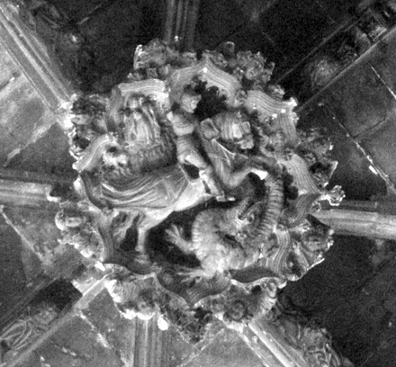 Sant George and Dragon, cloister, cathedral of Barcelona